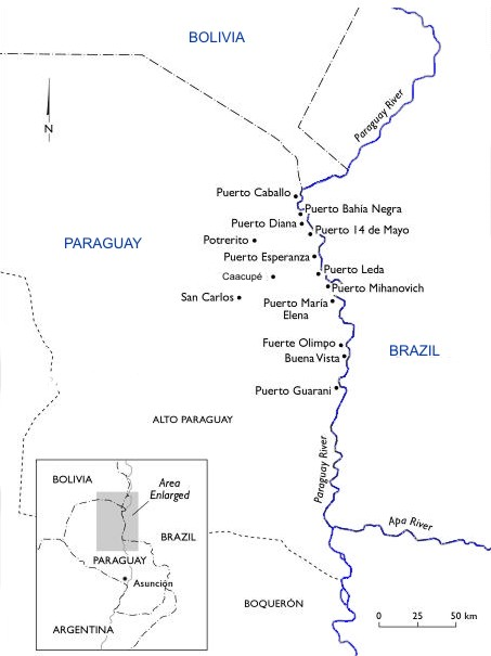 Map of setlements in the Paraguay River